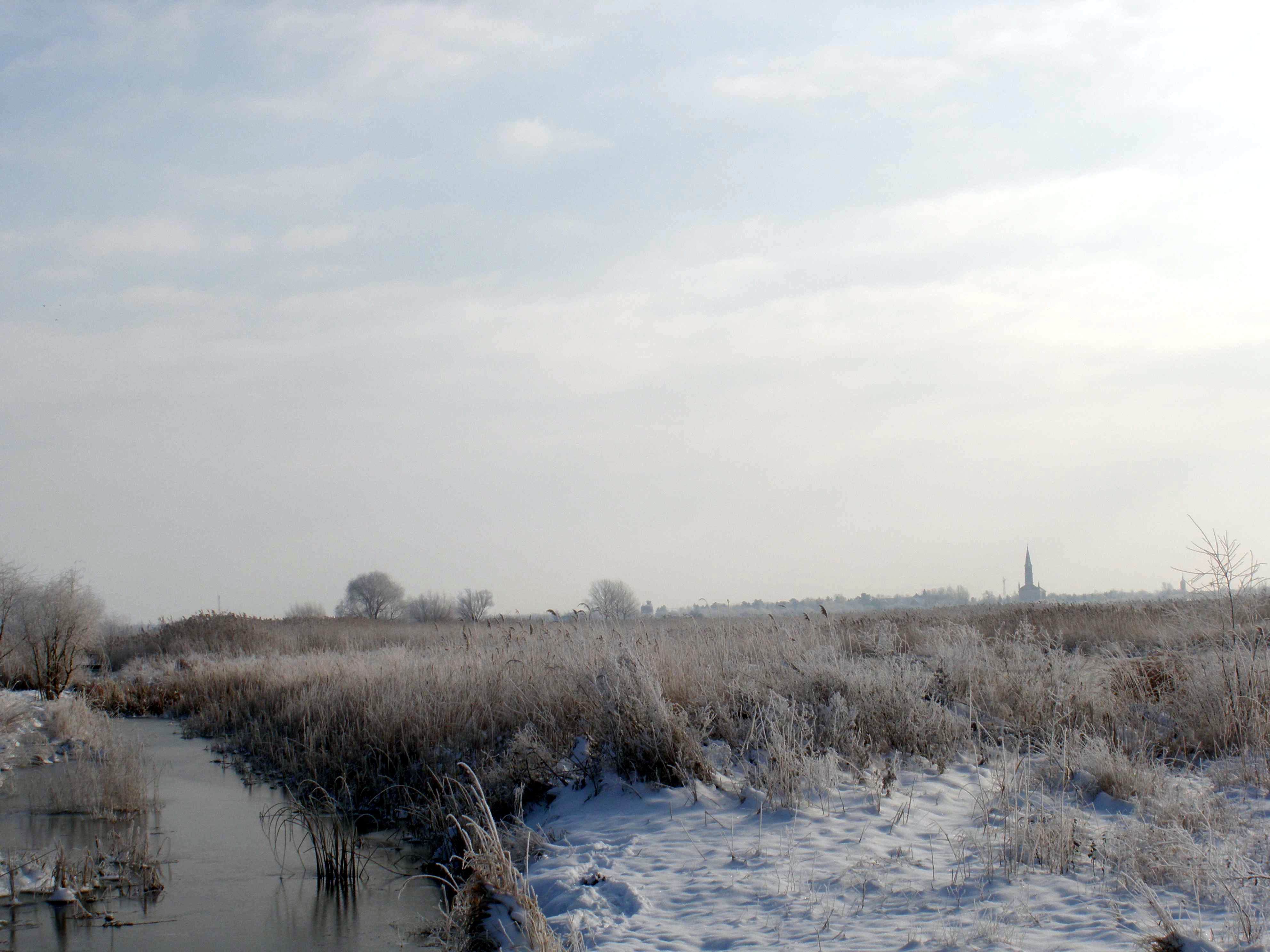 winter in Panonia (Vojvodina, Serbia) 2010